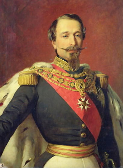 Napoleon III, emperor of the French